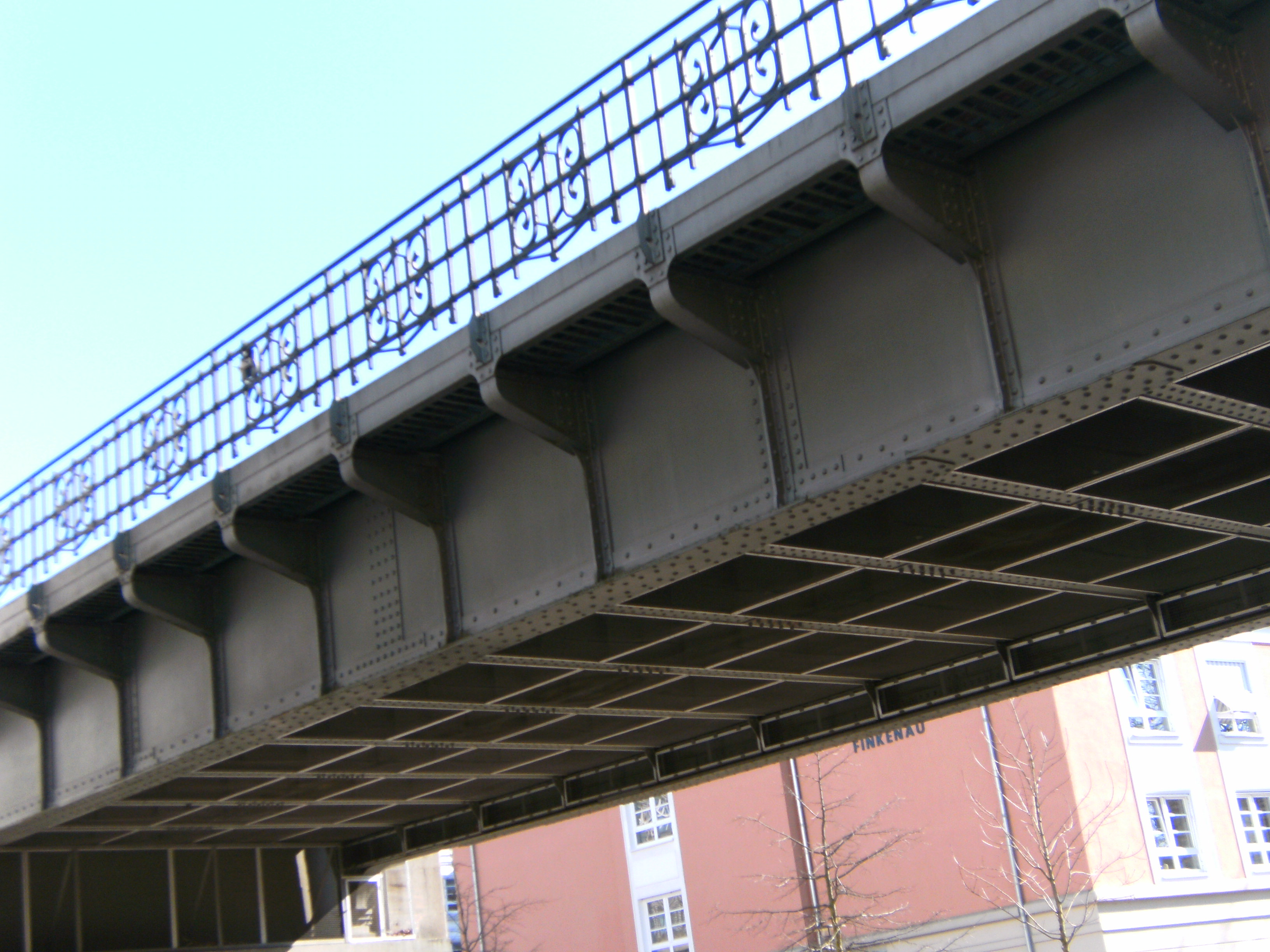 Details of elevated railway bridge over Finkenau (street) in Hamburg, Germany.